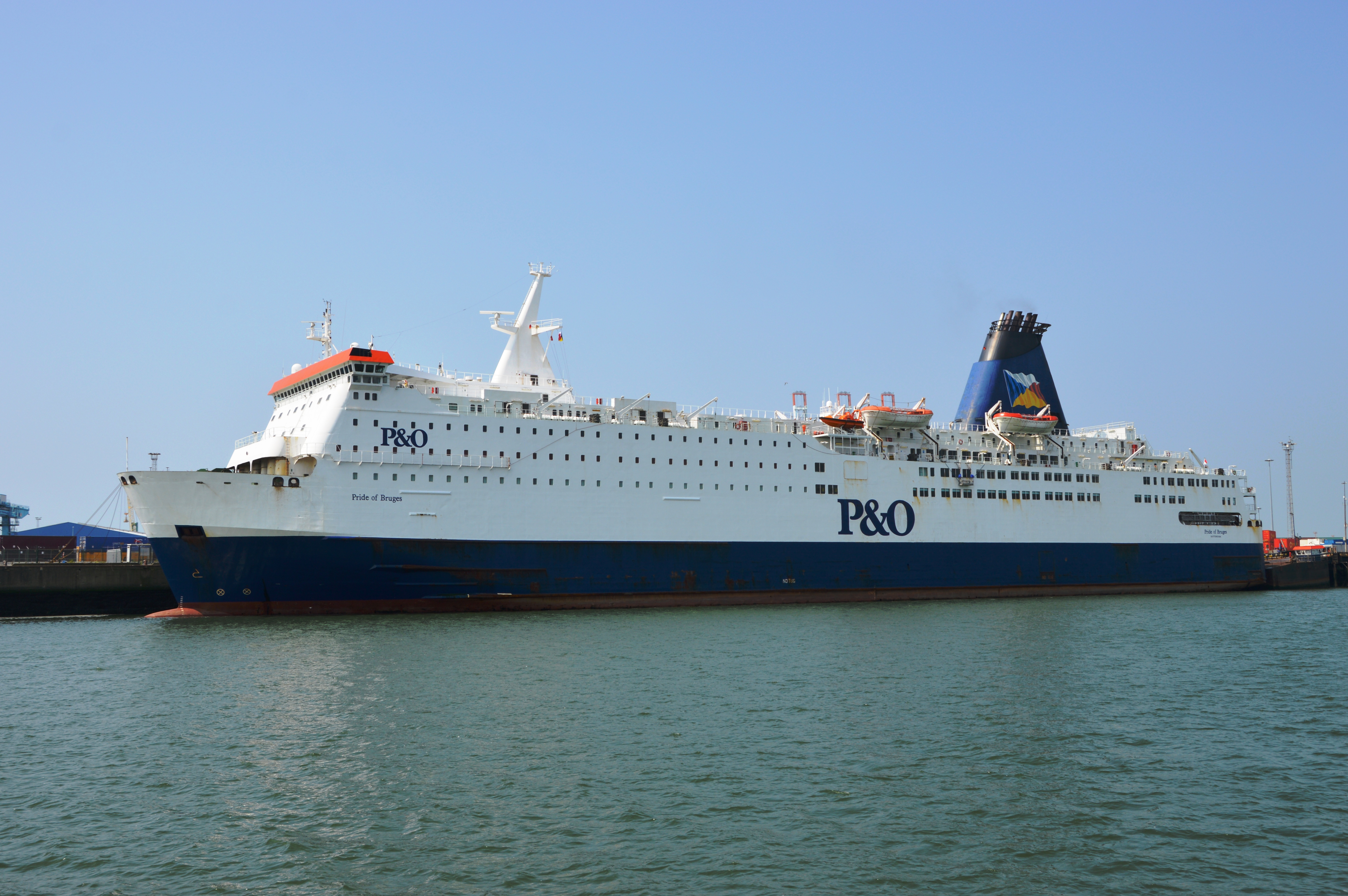 Ferry MS Pride of Bruges in the port of Zeebrugge.